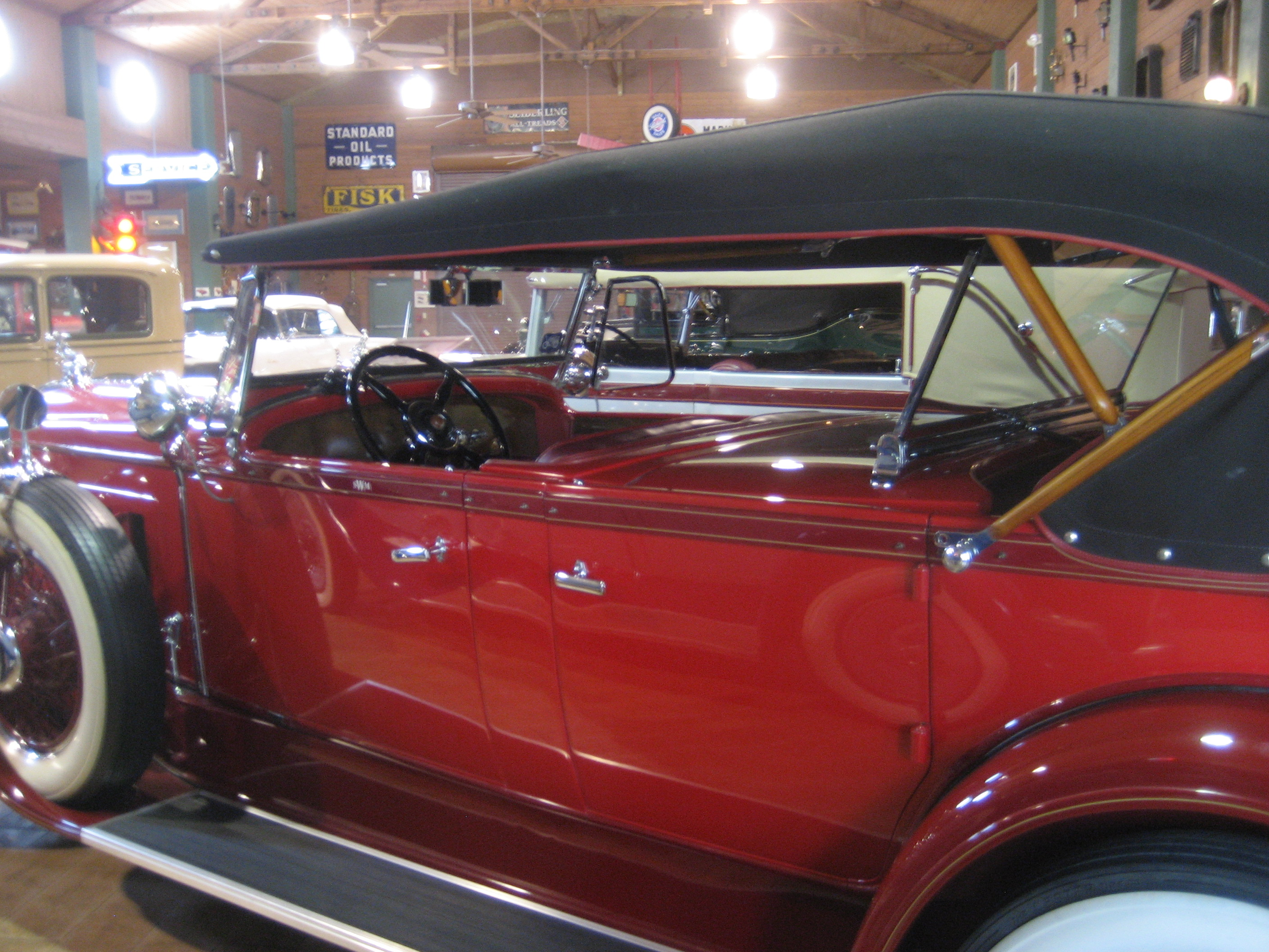 1929 Packard 645 Dual Cowl Phaeton. On display at Fort Lauderdale Antique Car Museum.